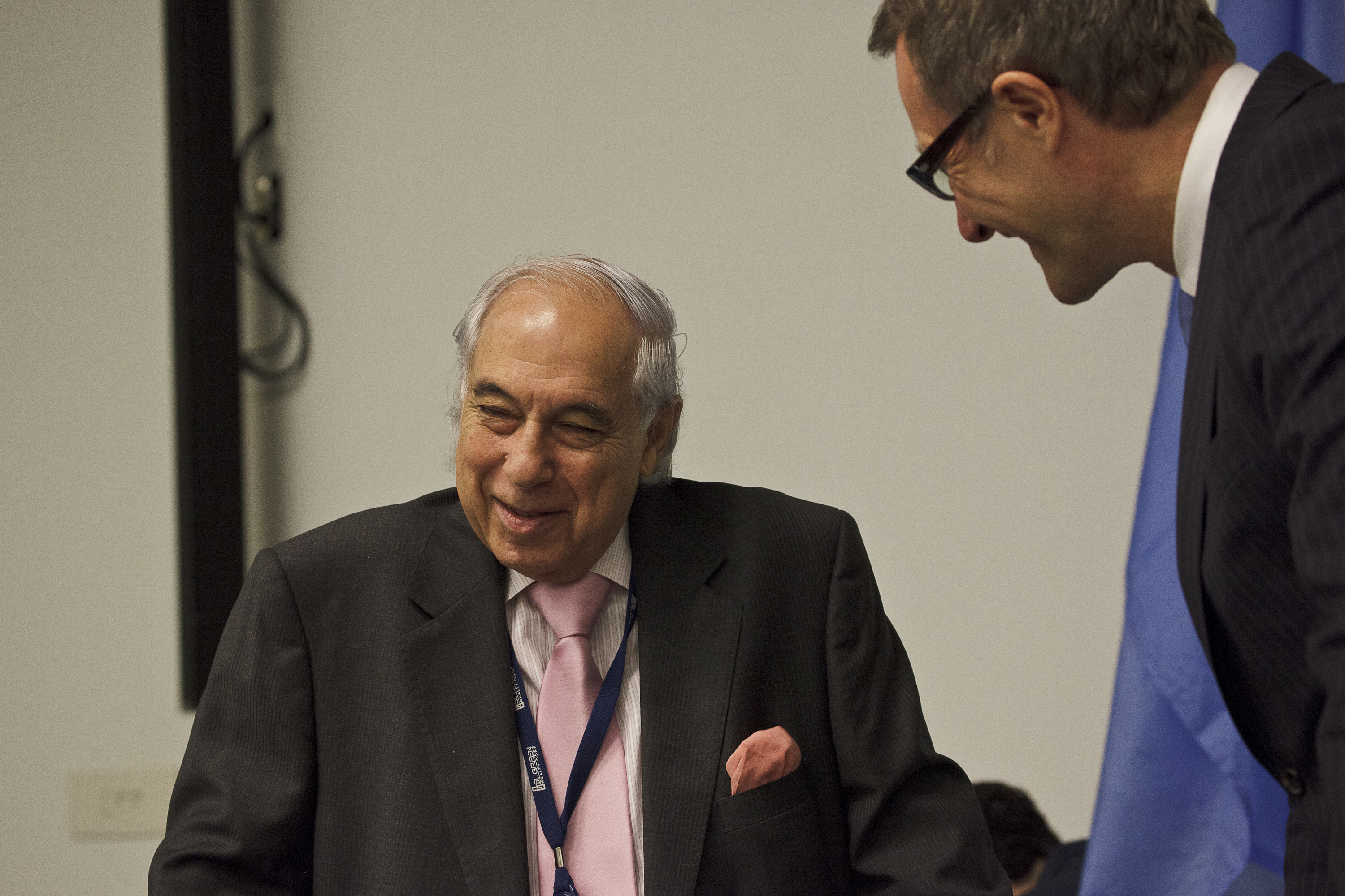 23 September, 2011 - New York UN High Representative for Disarmament Sergio Duarte (left) and CTBTO Executive Secretary Tibor Tóth (right) at the Conference on Facilitating the Entry into Force of the Comprehensive Nuclear-Test-Ban Treaty. Photographer: James Leynse Copyright CTBTO Preparatory Commission